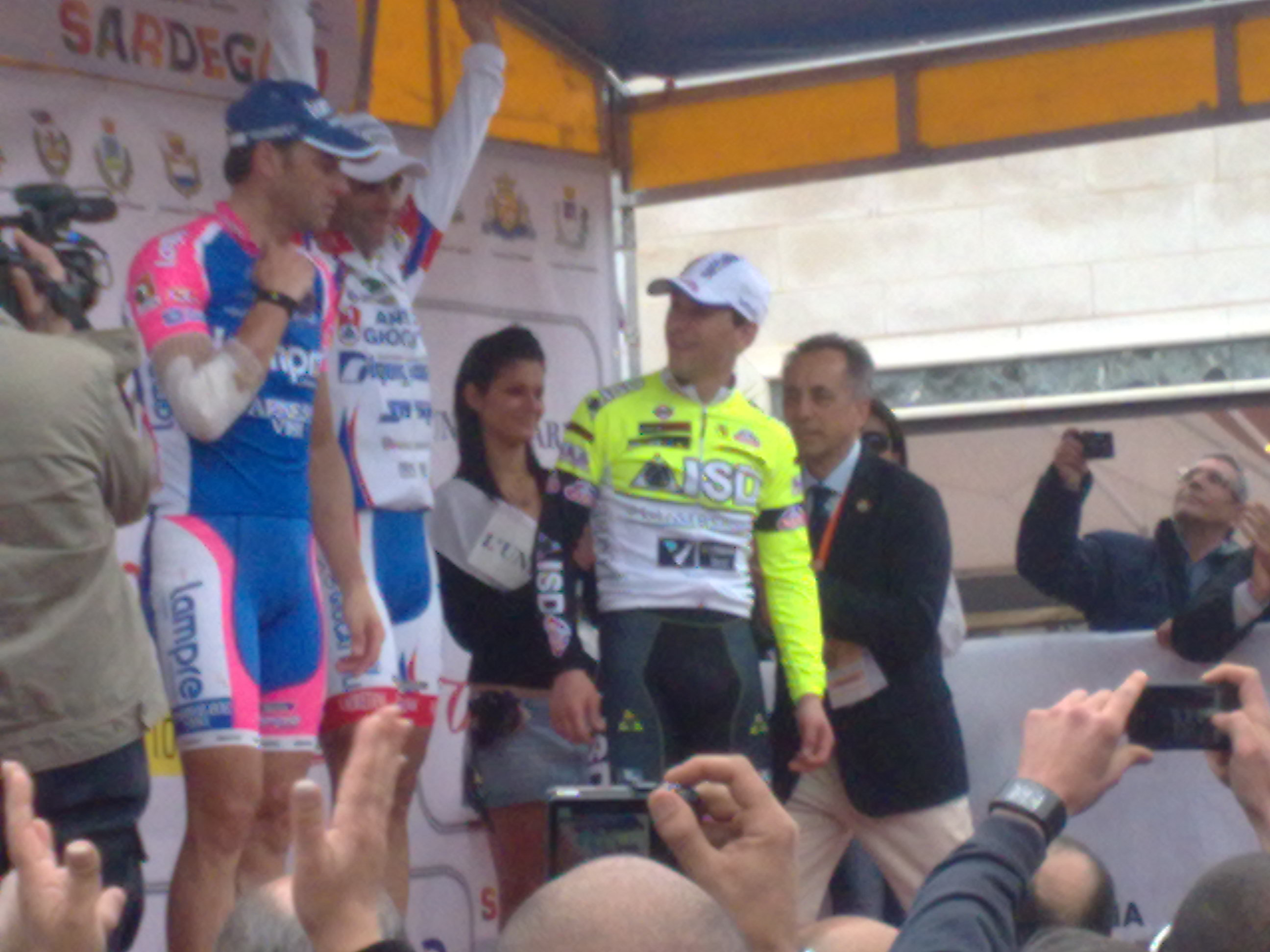 Podium of the Stage 5 of the Tour of Sardinia (cycling)